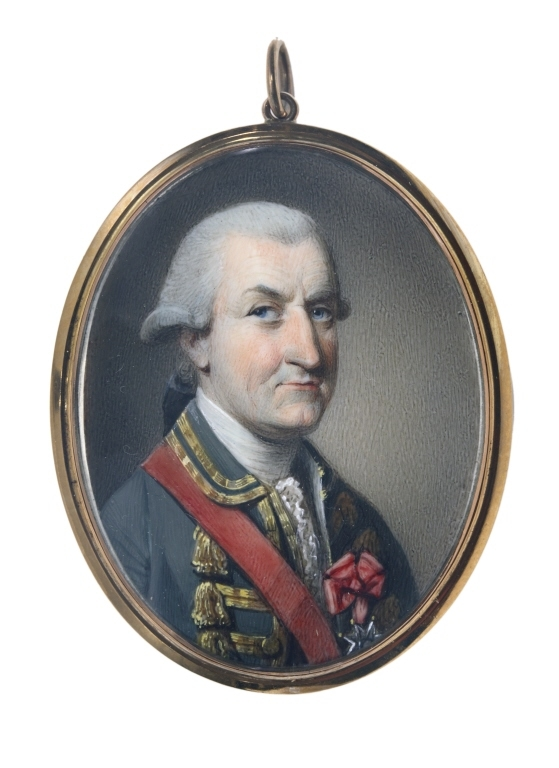 Painting, miniature, Saint-Luc de La Corne, 4.5 x 3.4 cm